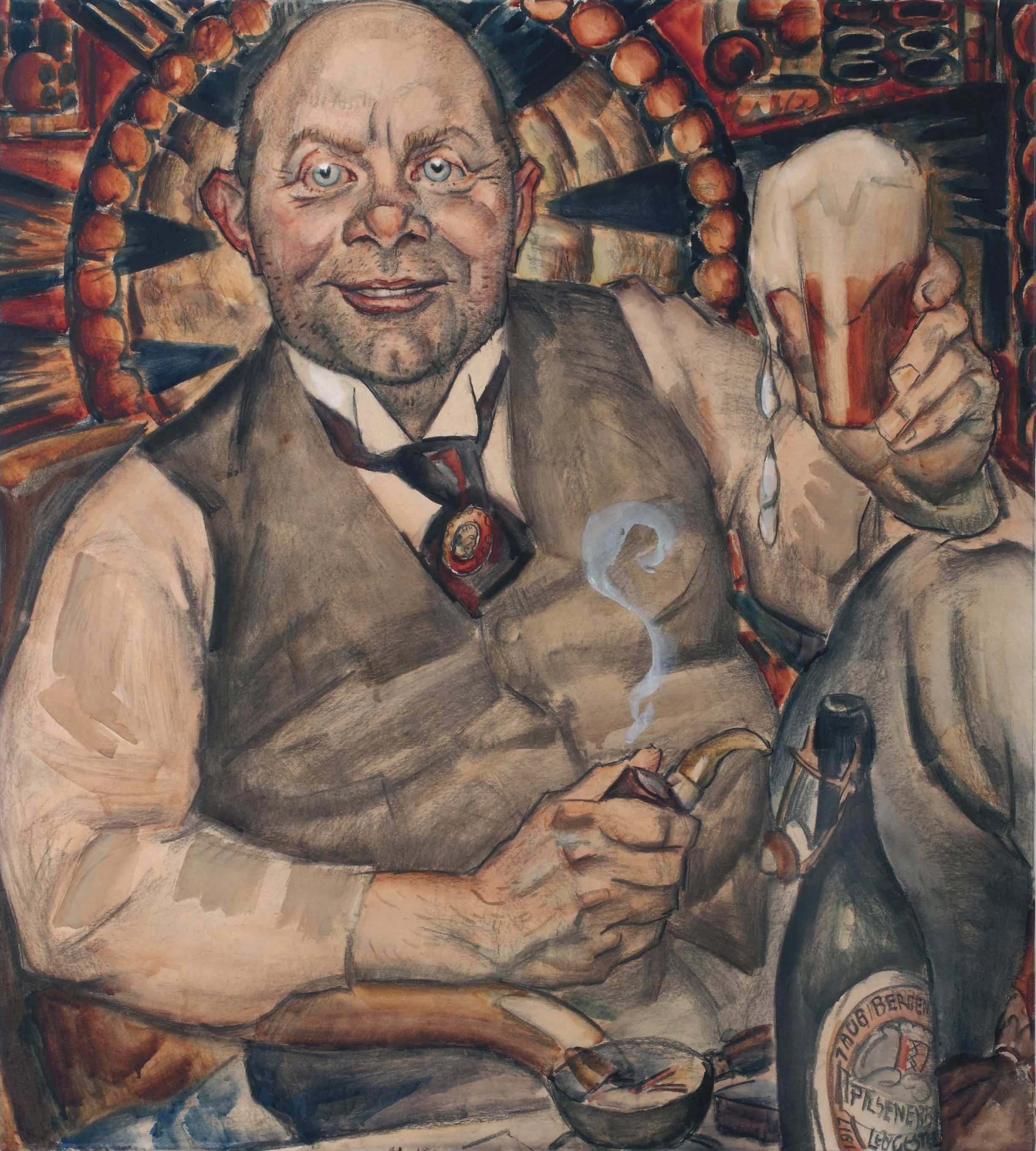 Piet Boendermaker chalk and watercolour chalk on paper 79 x 70.5 cm signed b.r.: Leo Gestel 1 augustus 1917 Bergen